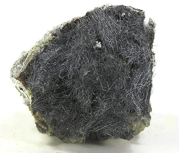 Jamesonite, Pyrite Locality: Noche Buena Mine, Noche Buena, Municipio de Mazapil, Zacatecas, Mexico (Locality at ) Size: 5.3 x 5.3 x 4.3 cm. Another Zacatecas specimen from the collection of Charles Hansen, this one quite hard to obtain: a rich specimen of acicular jamesonite, a mass of thousands of tiny grey hair-like crystals, on matrix. Old 1960s and 1970s material.